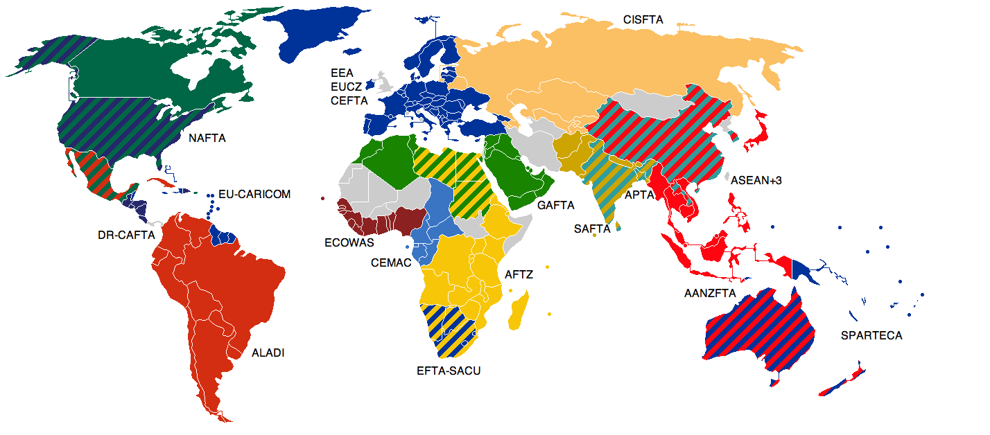 Free trade areas are a difficult subject. It is impossible to map all the existing free trade agreements on one map, and still make it readable. Here are presented FTAs with three or more participants.